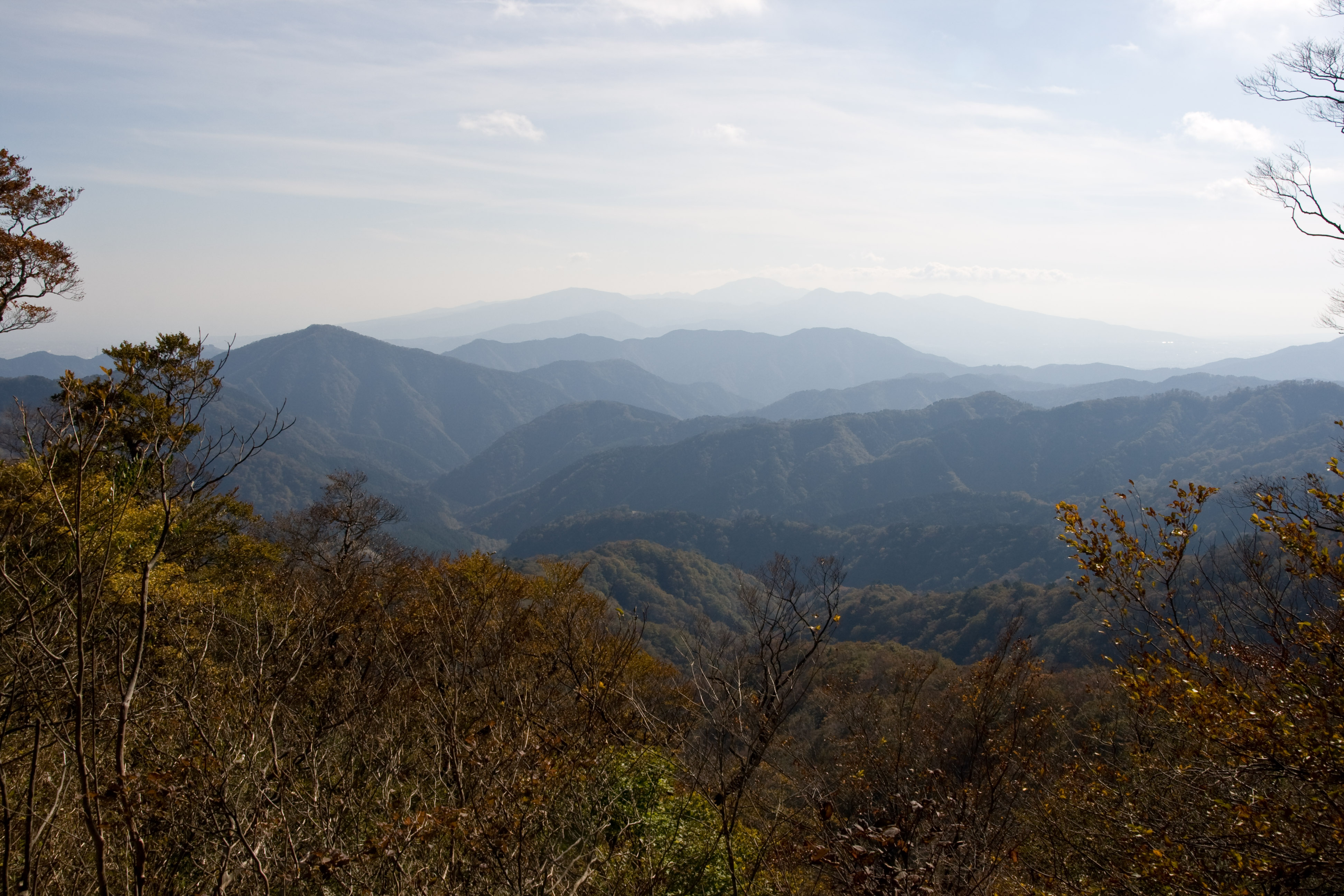 Landscape of west-Tanzawa from wset-side of Mt.Jogao, Tanzawa Mountains, Honshu, Japan.